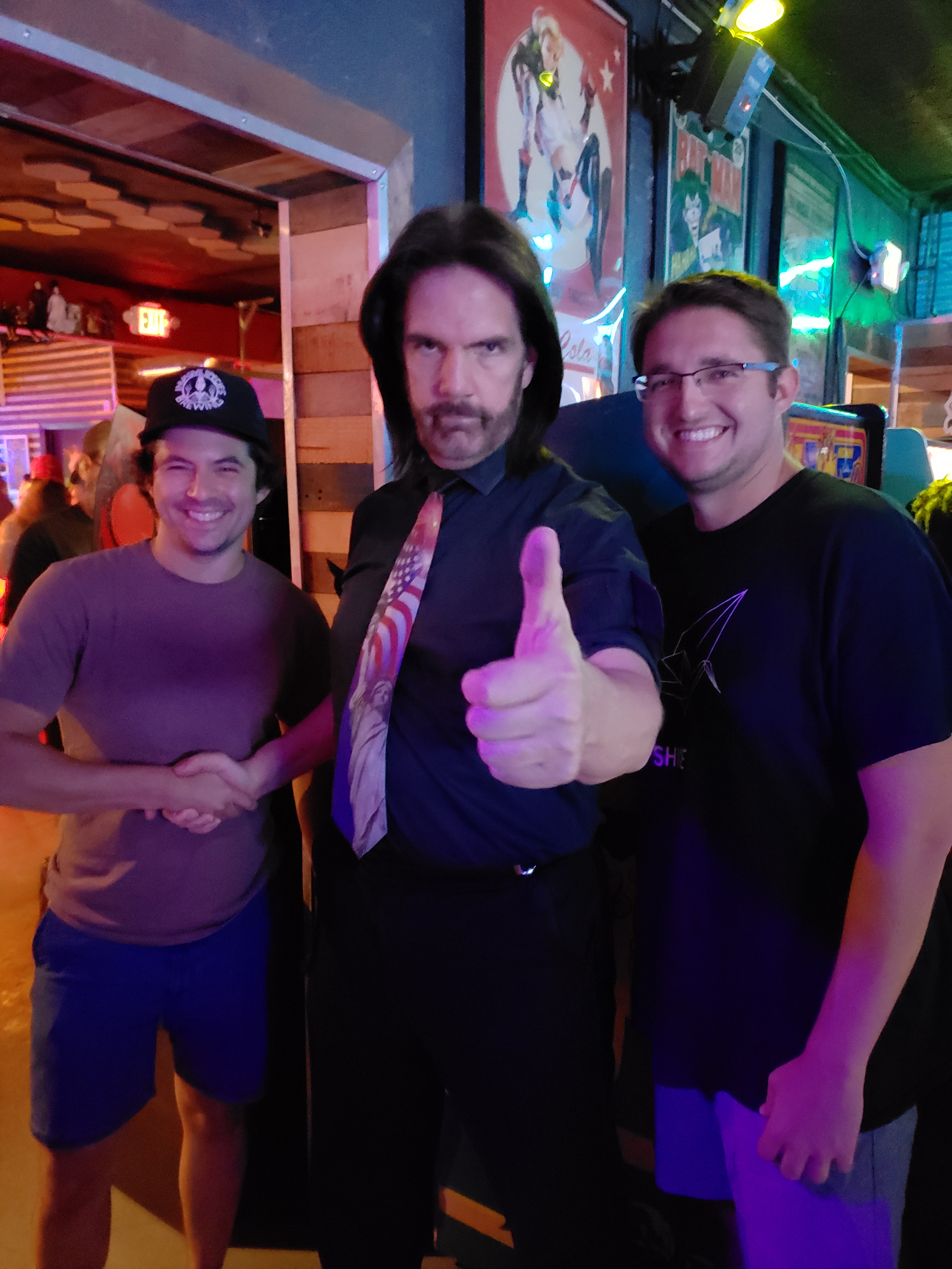 Craig & Kyle, and also Billy Mitchell